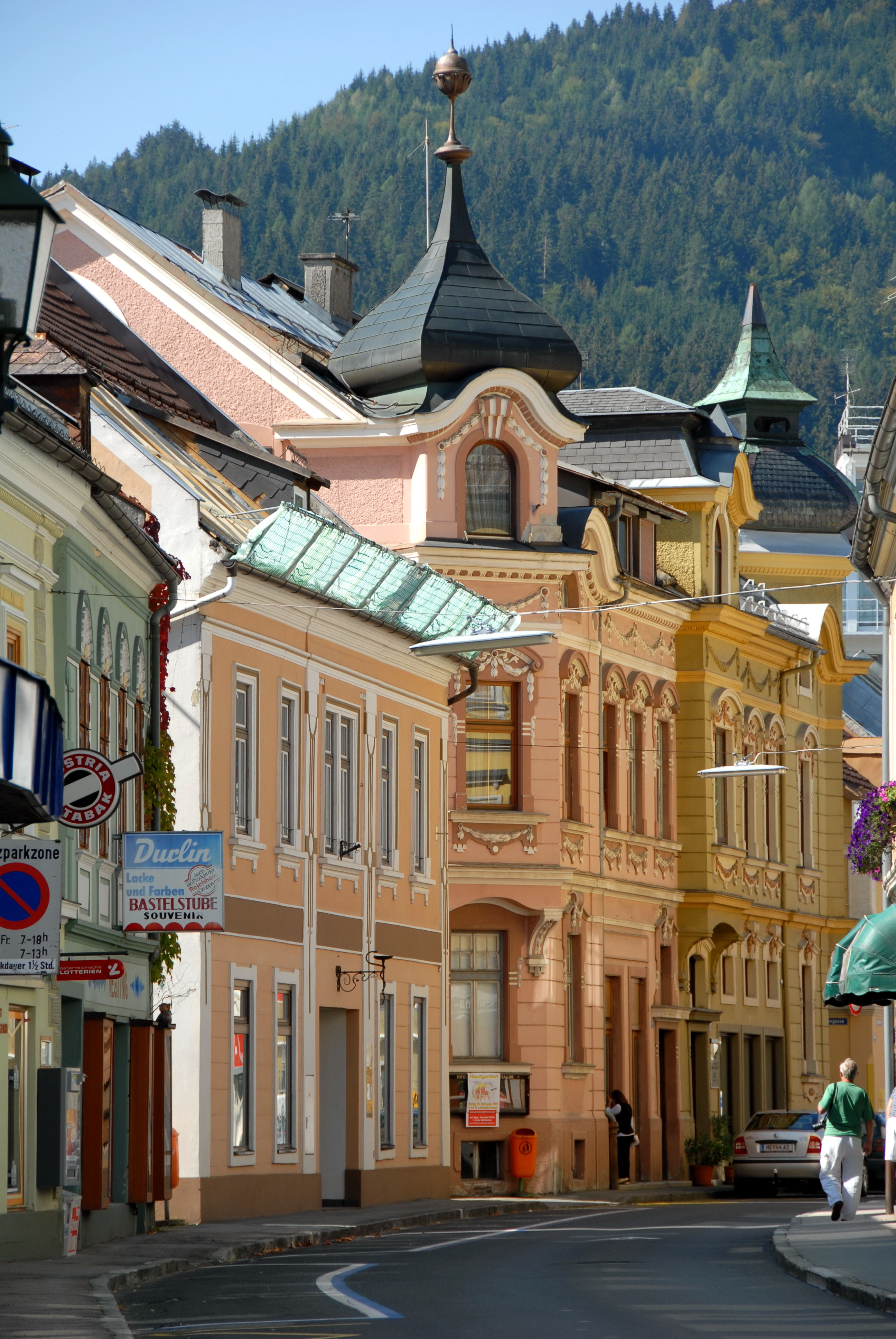 View of Hermagor, municipality Hermagor, district Hermagor, Carinthia, Austria, EU